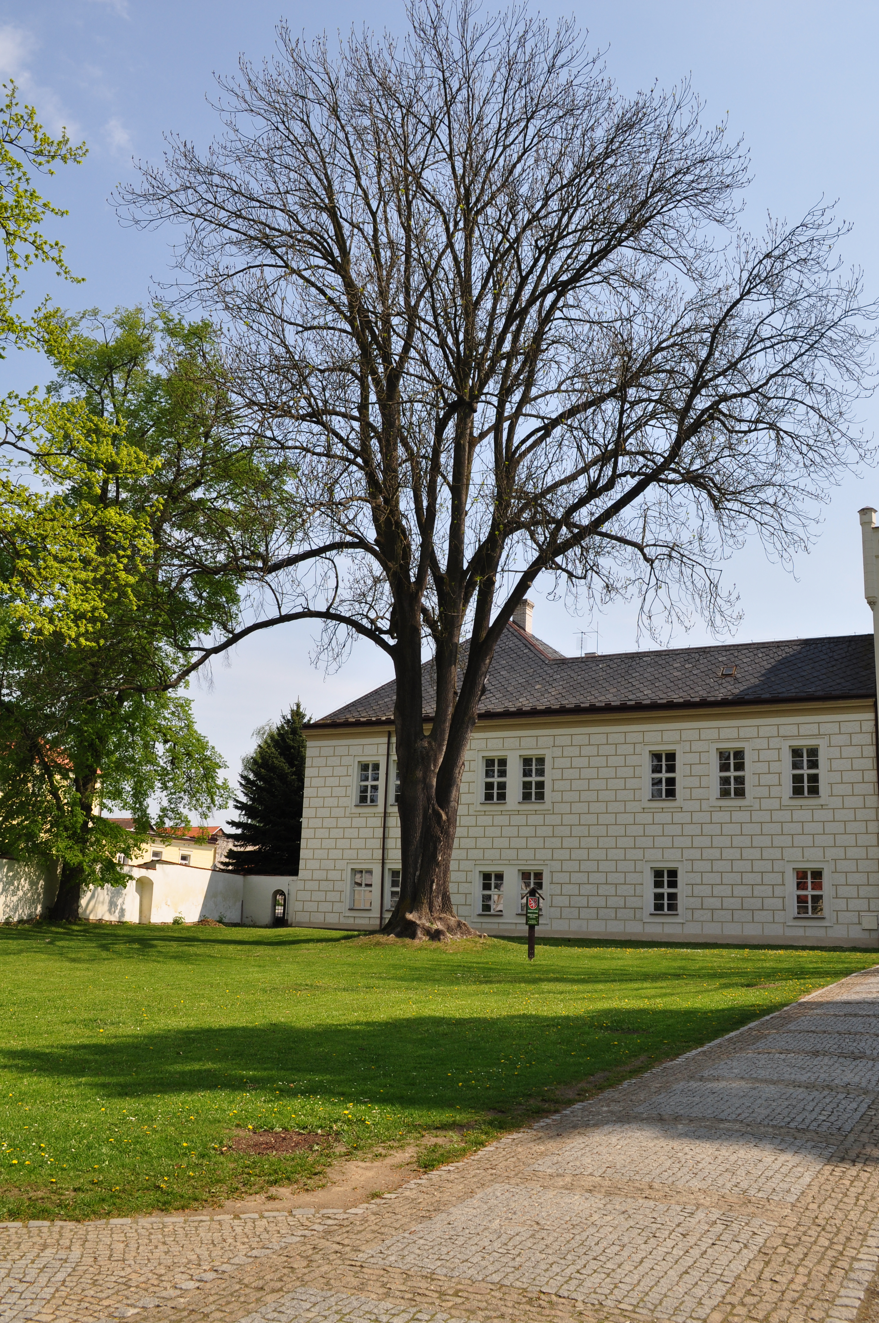 Memorial tree in front of the castle - ash - called Castle Colossus